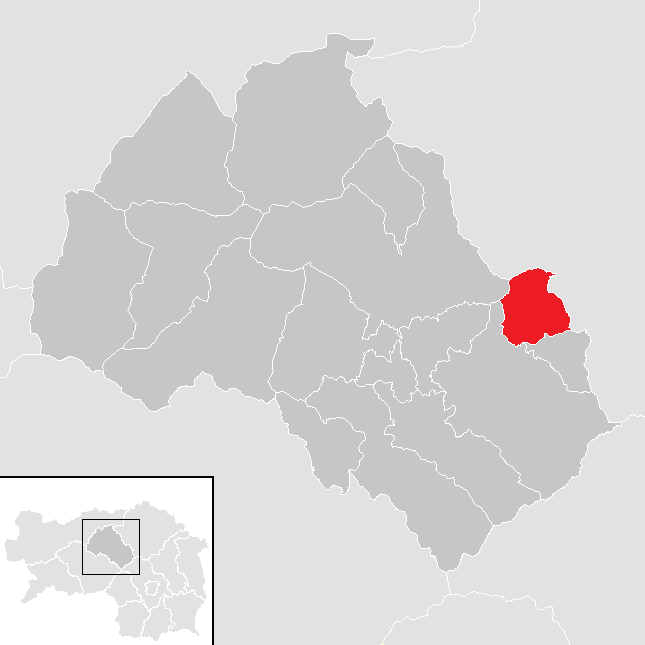 District Leoben